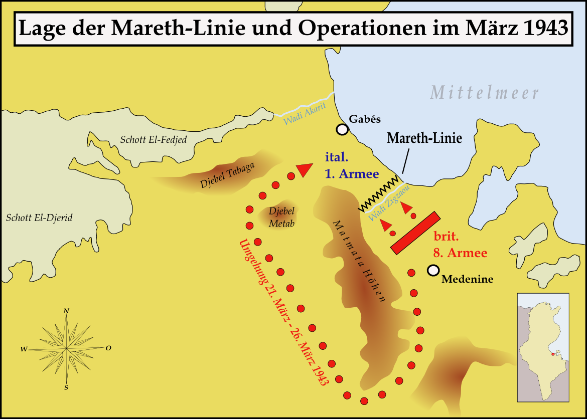 Map showing the situation of the Mareth line and the British attacks on it during March 1943